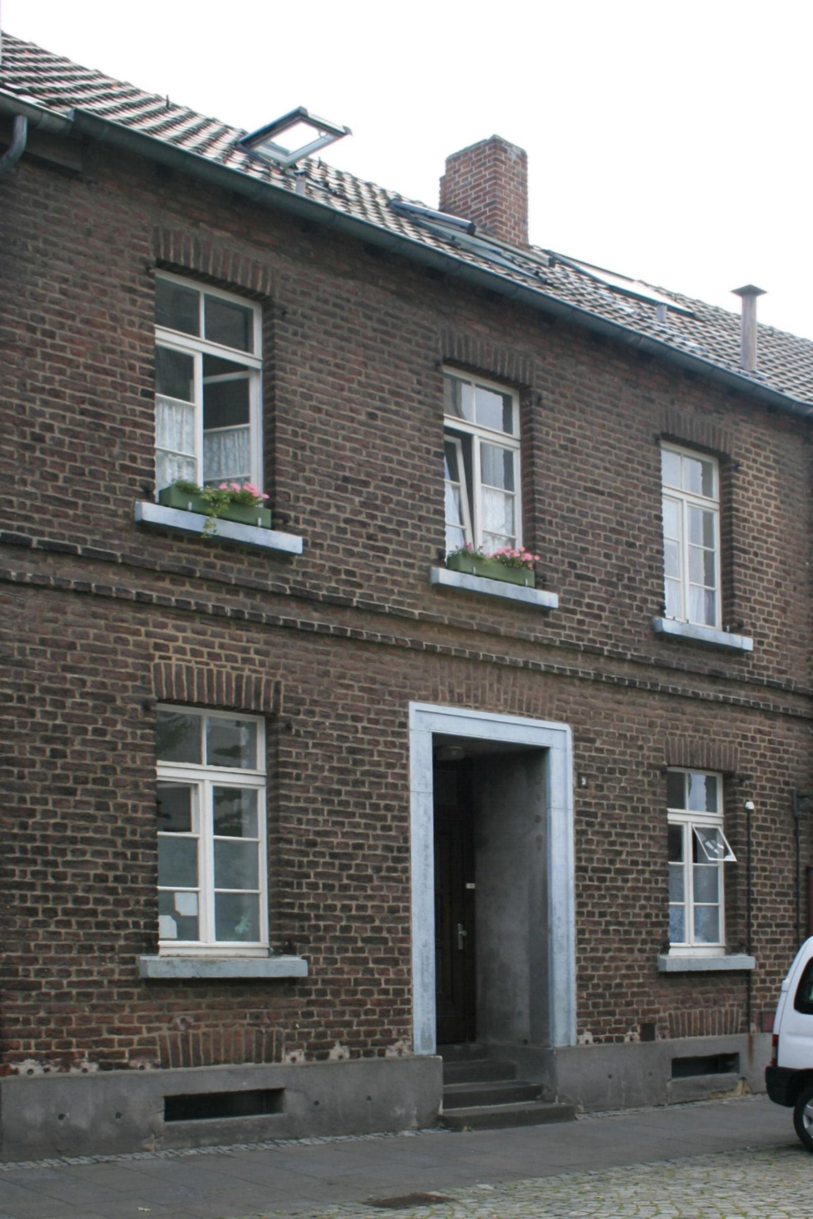 Cultural heritage monument No. K 090 in Mönchengladbach